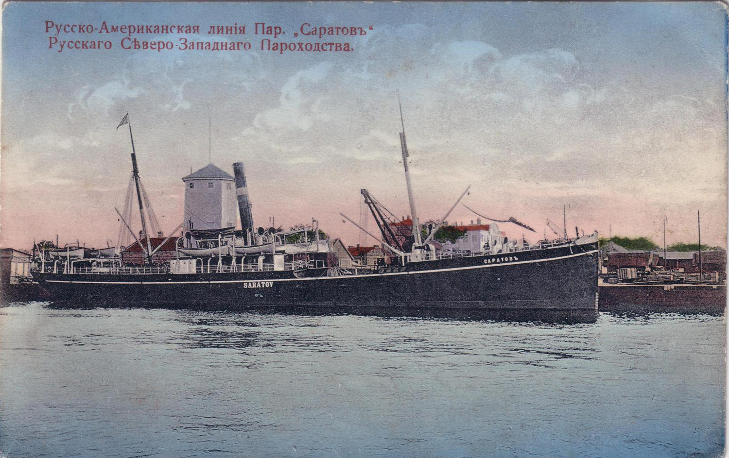 Russian-American Line Steamship Saratov of Russian North-Western Steamship Co.